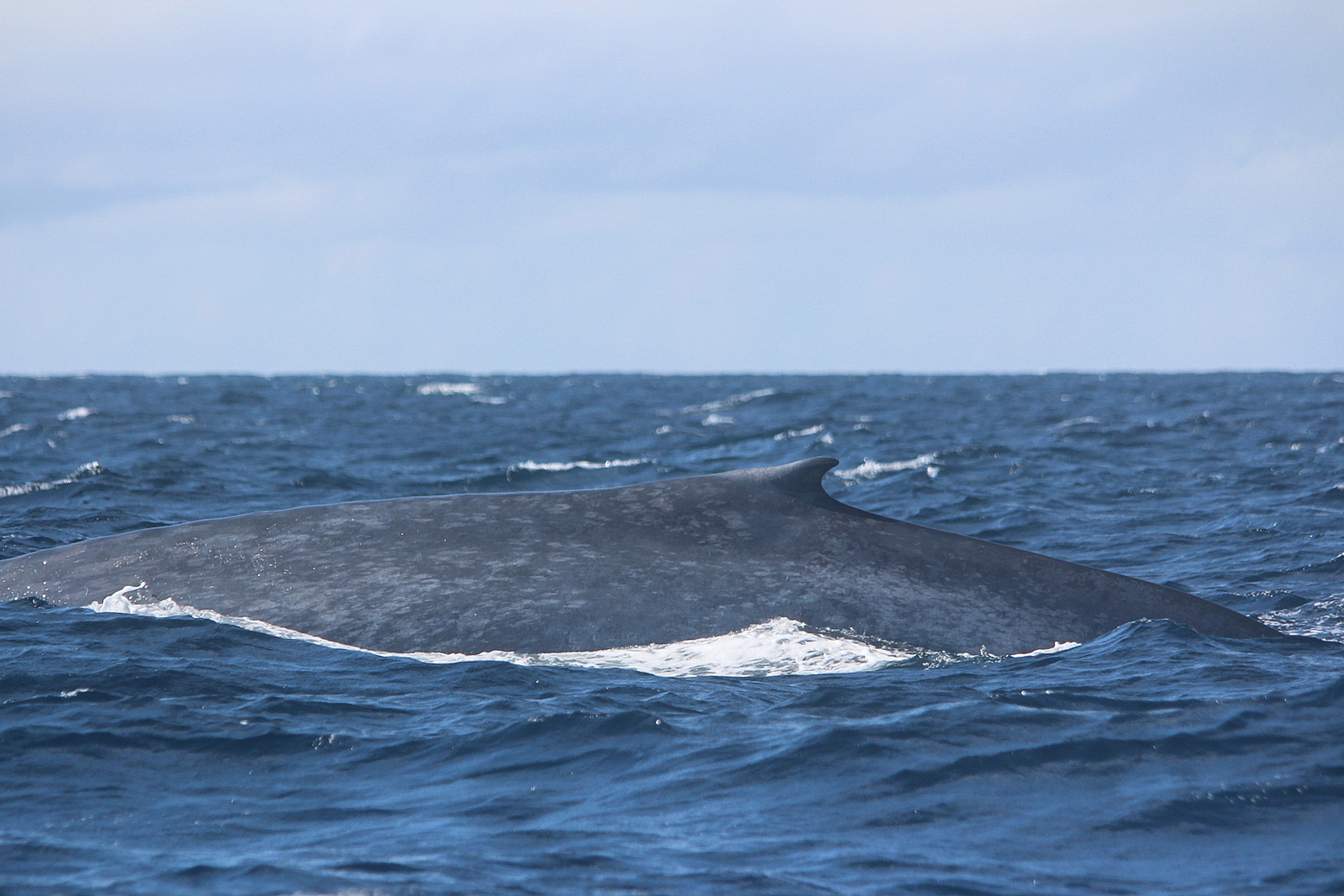 Back of blue whale Sri Lanka